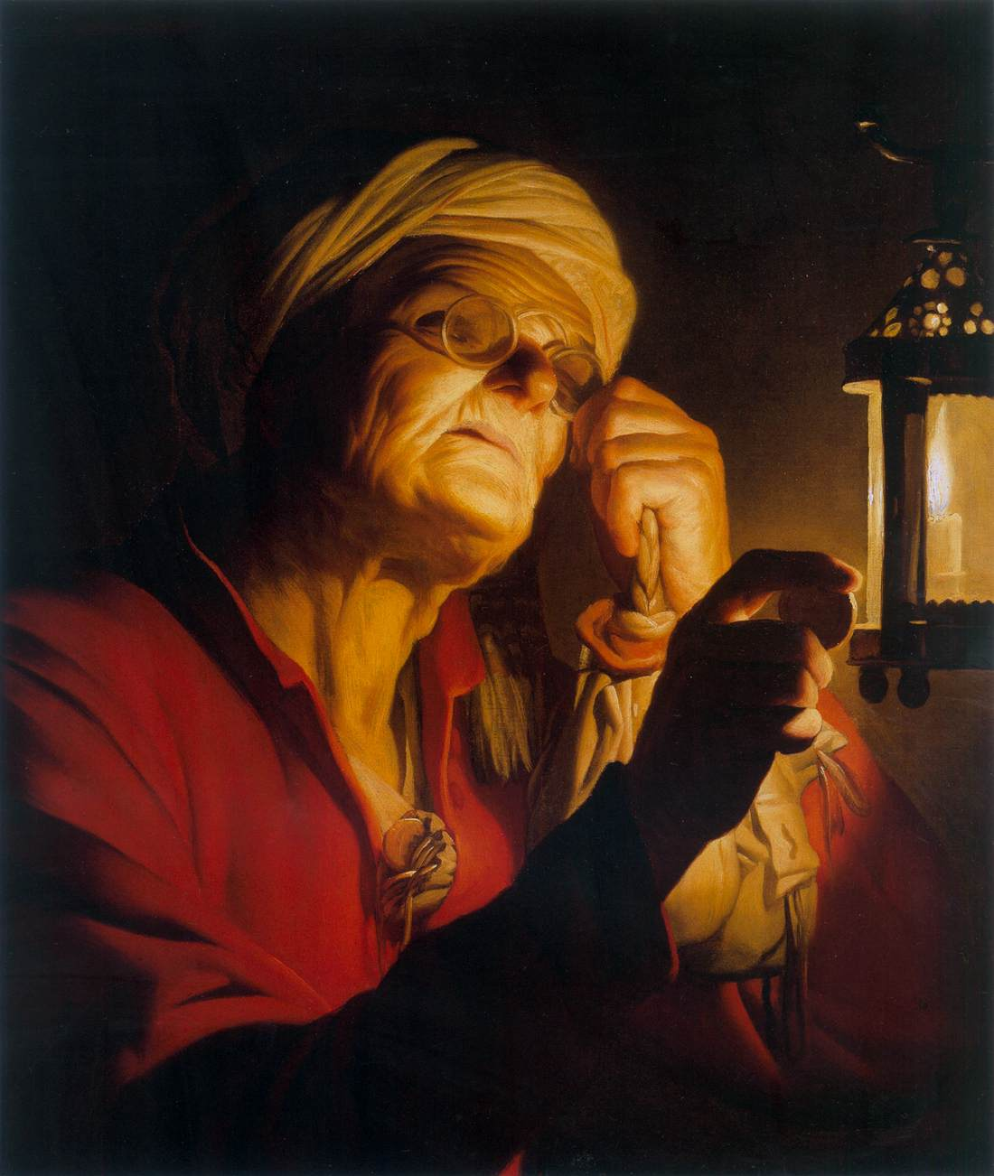 Old Woman Examining a Coin by a Lantern (Sight or Avarice), Gerrit van Honthorst, 1623, The Kremer Collection